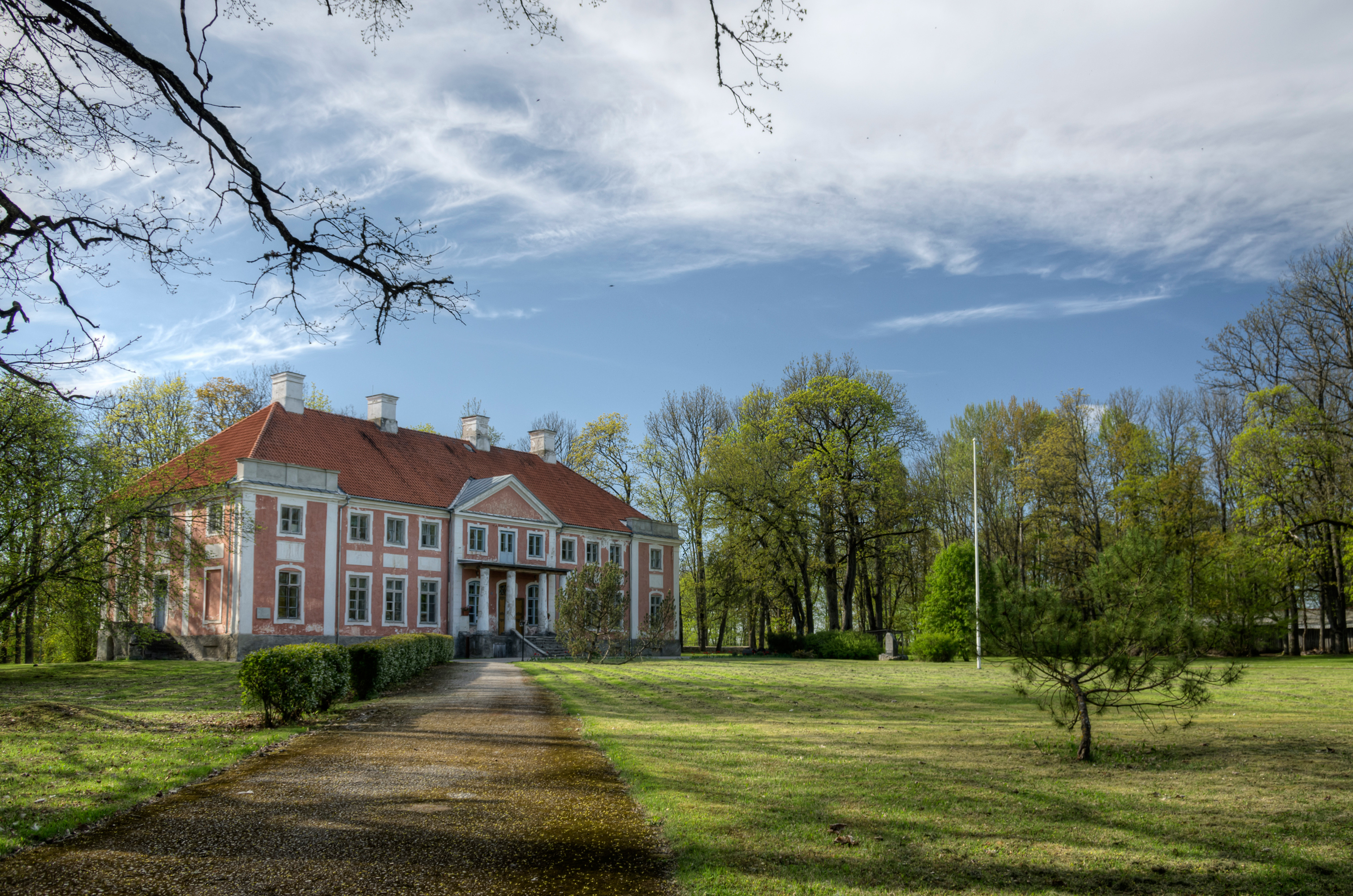 Sargvere Manor house